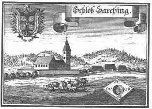 copperplate engraving of Michael Wening (1645–1718) of Schloss Sarching